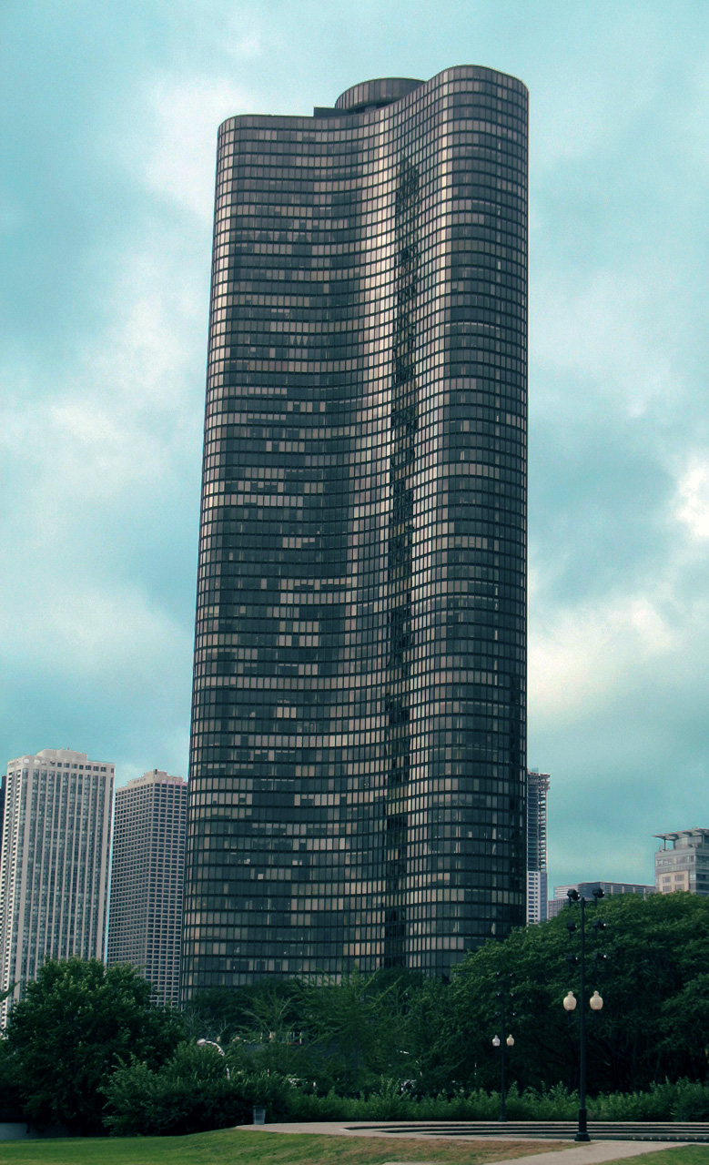 Lake Point Tower in Chicago